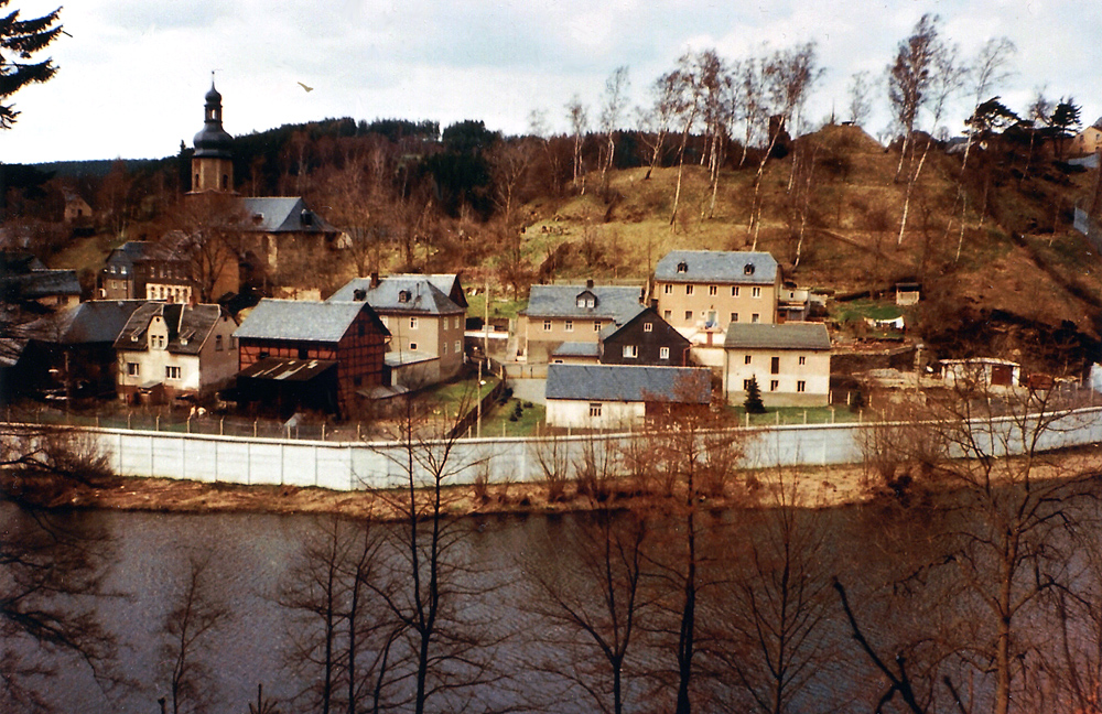 Sparnberg, Thuringia, seen from the West German bank of the Saale.